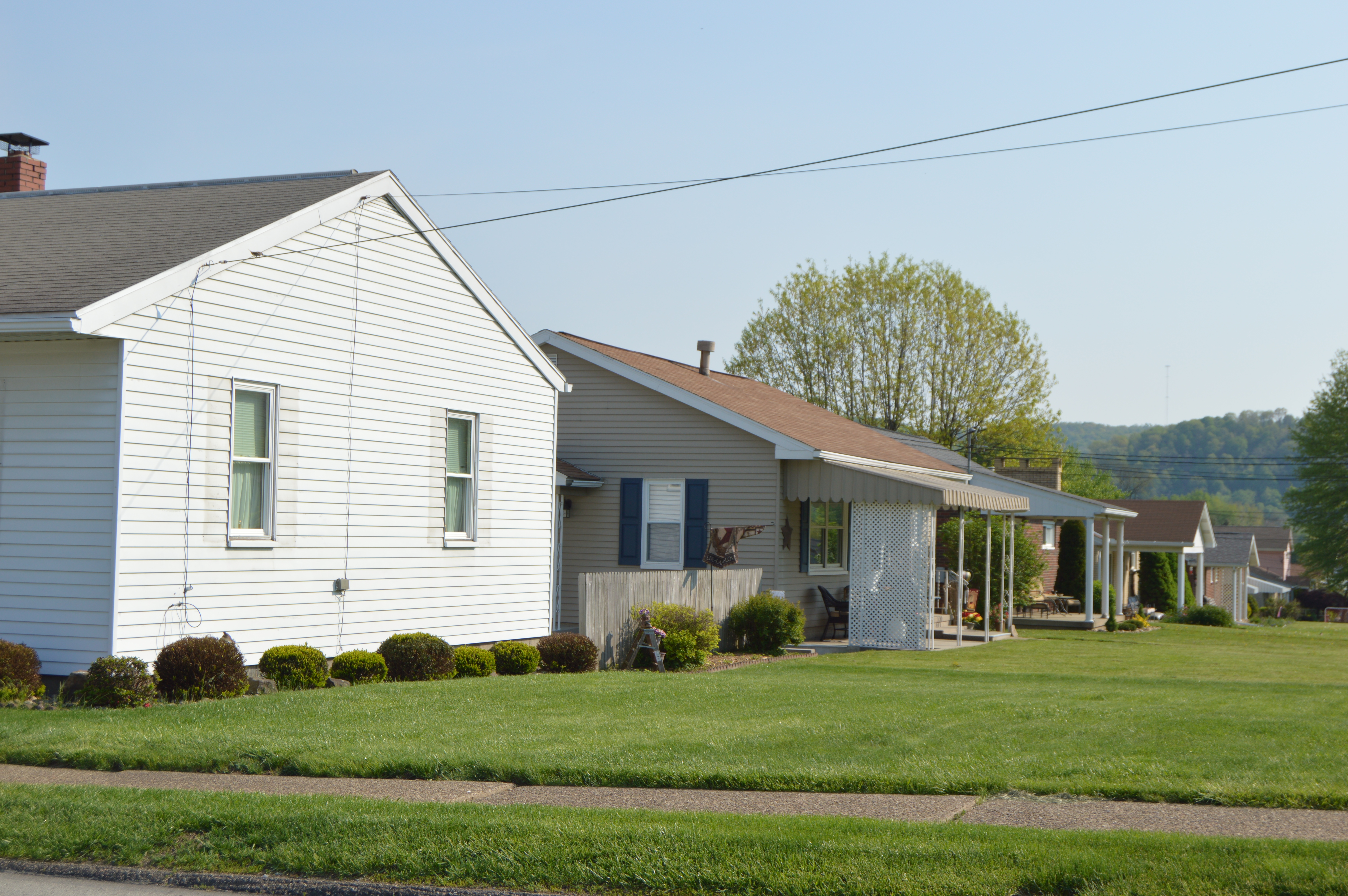 Looking northeast from Eighteenth Street toward houses on Acheson Avenue in North Apollo, Pennsylvania, United States.